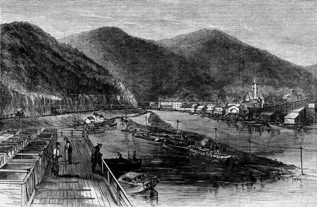 View of Mauch Chunk, Carbon County, Pennsylvania, a wood engraving sketched by Theodore R. Davis and published in Harper's Weekly, September 1869.